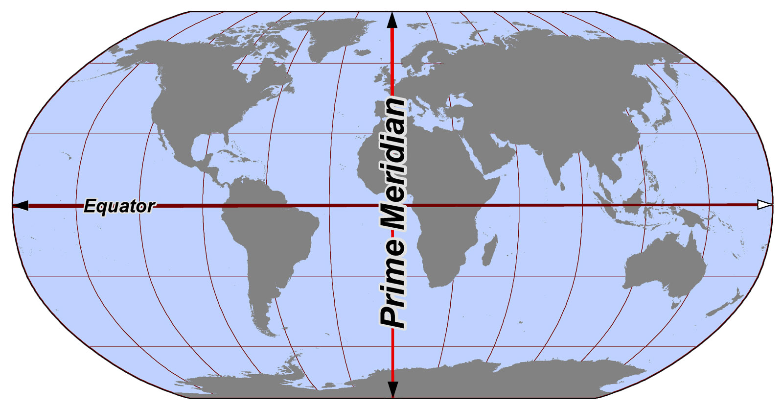 Location of Prime Meridian. Robinson map projection.